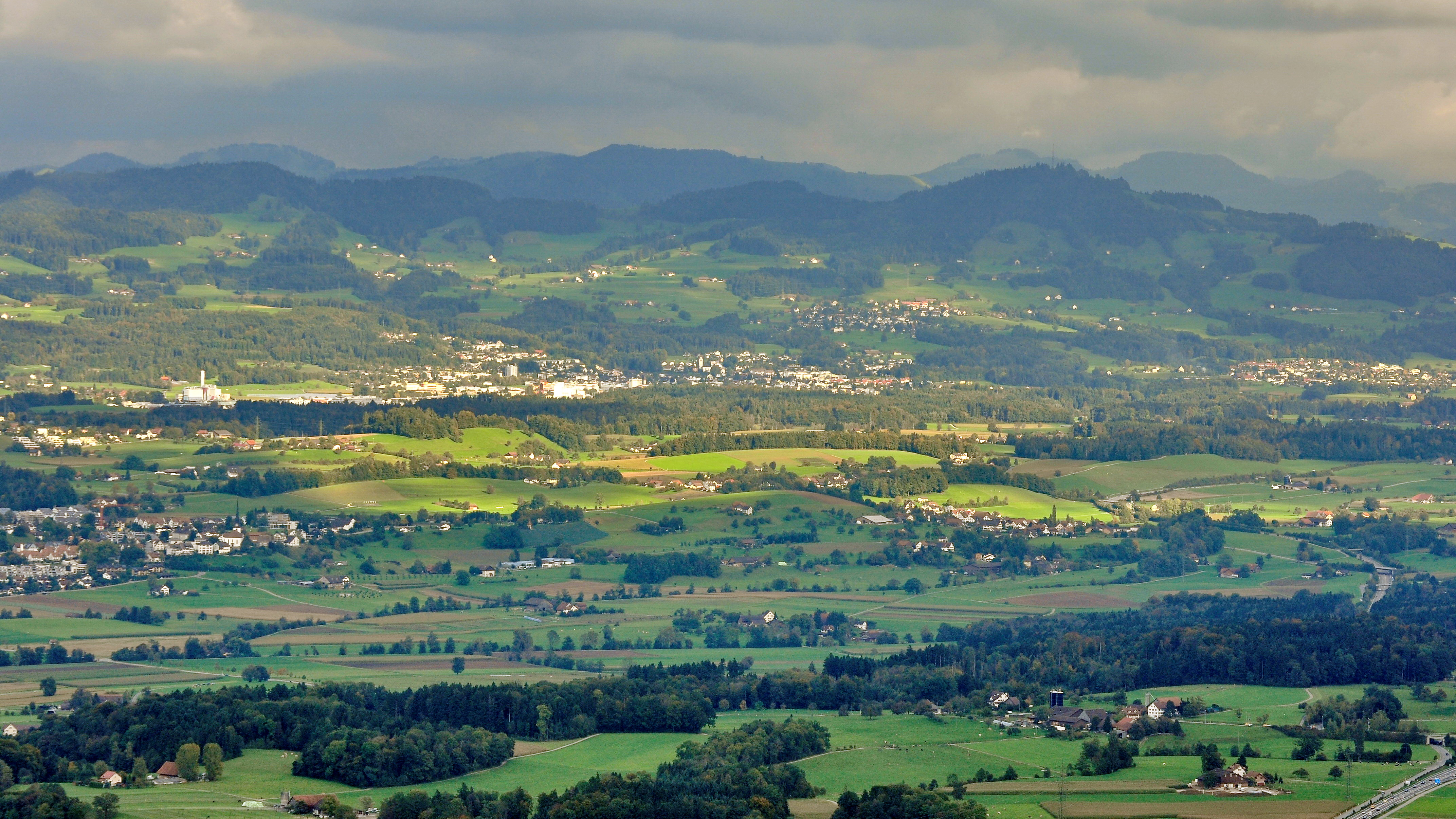 Hinwil (Switzerland) as seen from Pfannenstiel Aussichtsturm, Bachtel mountain and Dürnten (to the right) in background.